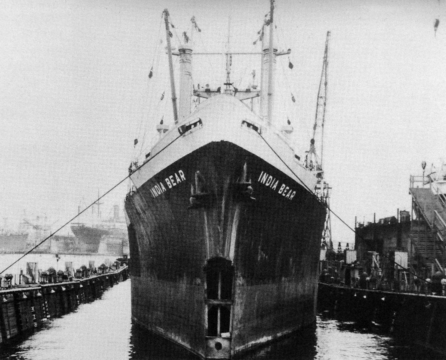 The freighter India Bear after her June 1960 ramming of Lime Point Light Station. The large hole in her bow can be seen as she is moored in an Alameda shipyard for repairs. (U.S. Coast Guard)